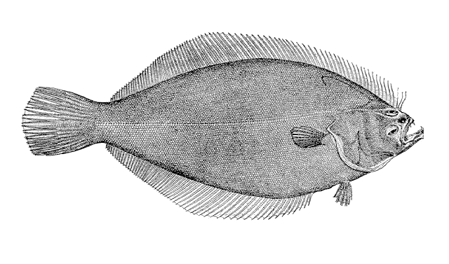 A drawing by A.H. Baldwin of Psettichthys melanostictus. Published in 1907: Evermann, B.W. and E.L. Goldsborough 1907 The fishes of Alaska. Bull. U.S. Bur. Fish. 26: 219-360.